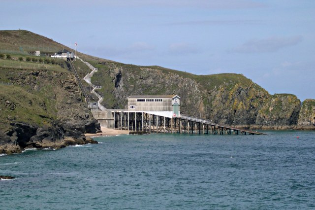 The Old Padstow Lifeboat House This photograph was taken in 2004, just before the new boathouse was built.